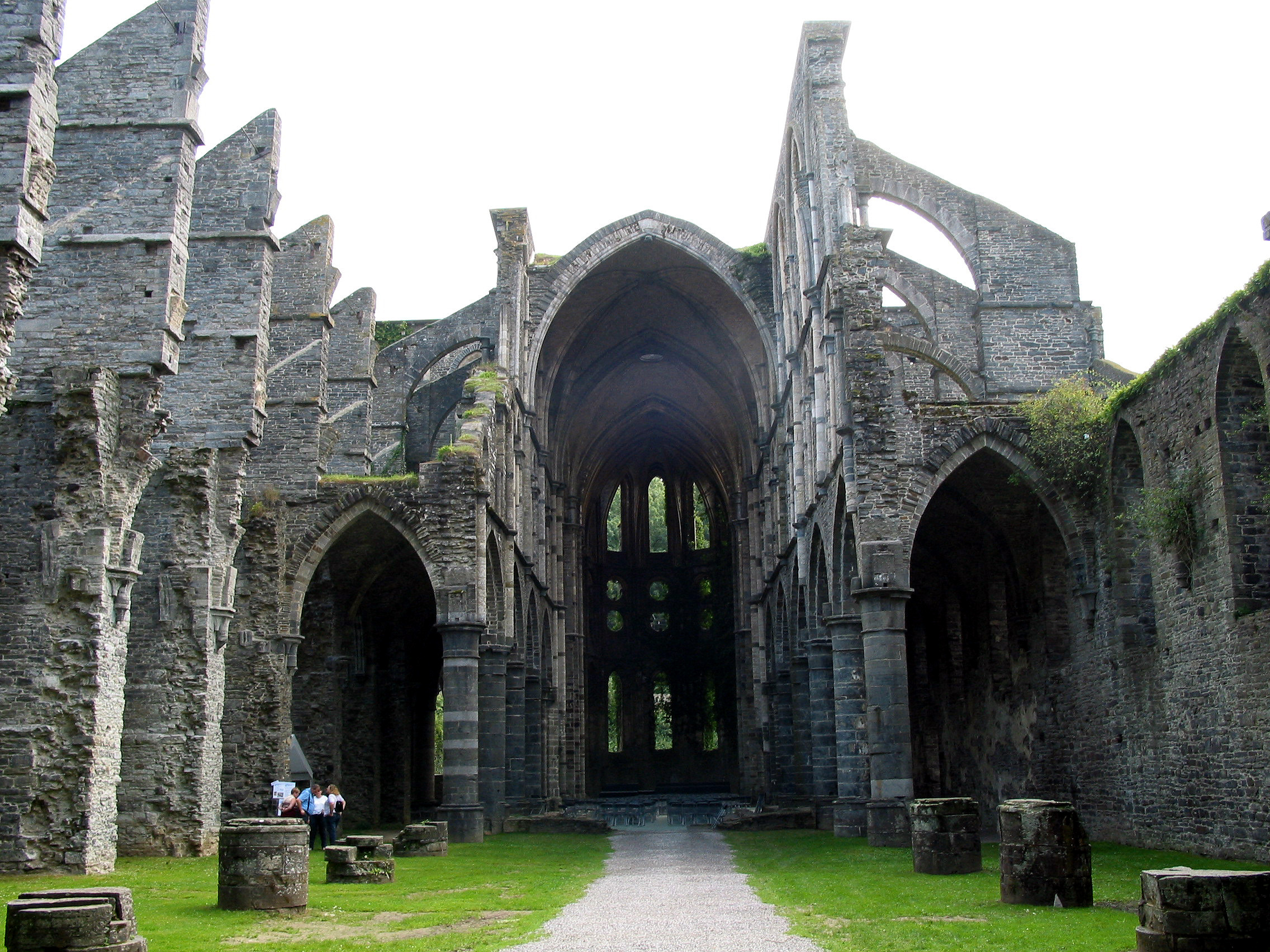 Villers-la-Ville (Belgium), nave, aisle and choir of the abbey church ruins (XIIIth century).